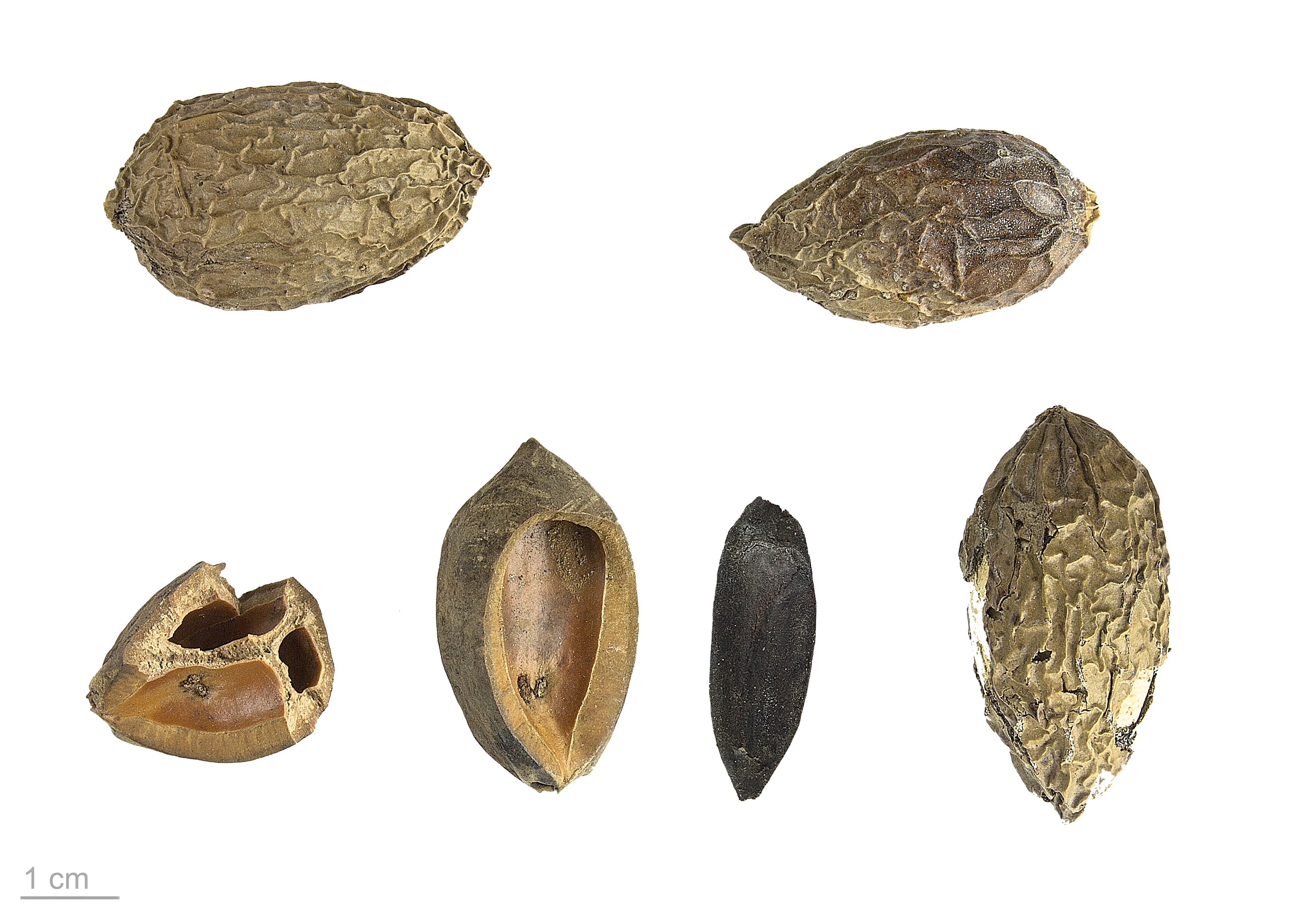 Canarium indicum, , seeds